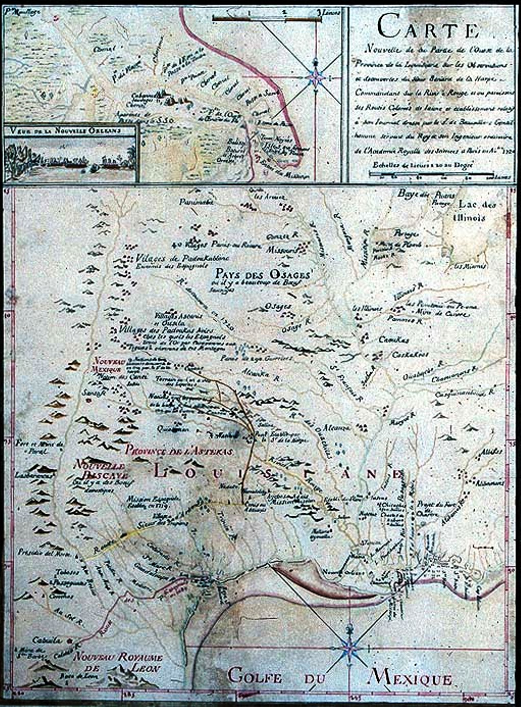 Map of Louisiana by Bernard de la Harpe